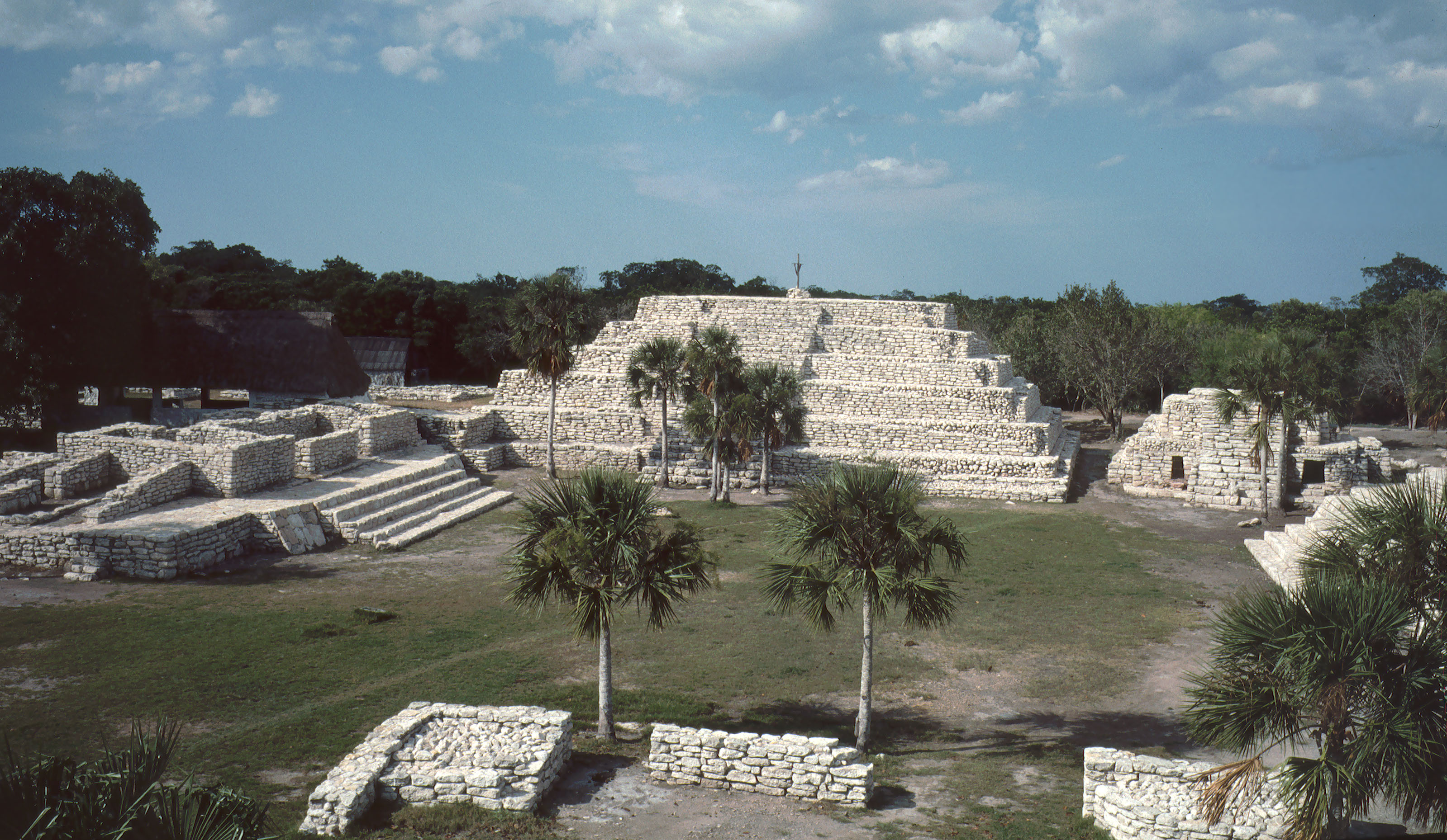 Xcambó,Yucatan, Mexico.